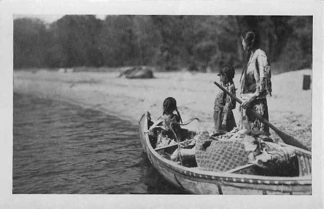 Ojibwe blueberry camp